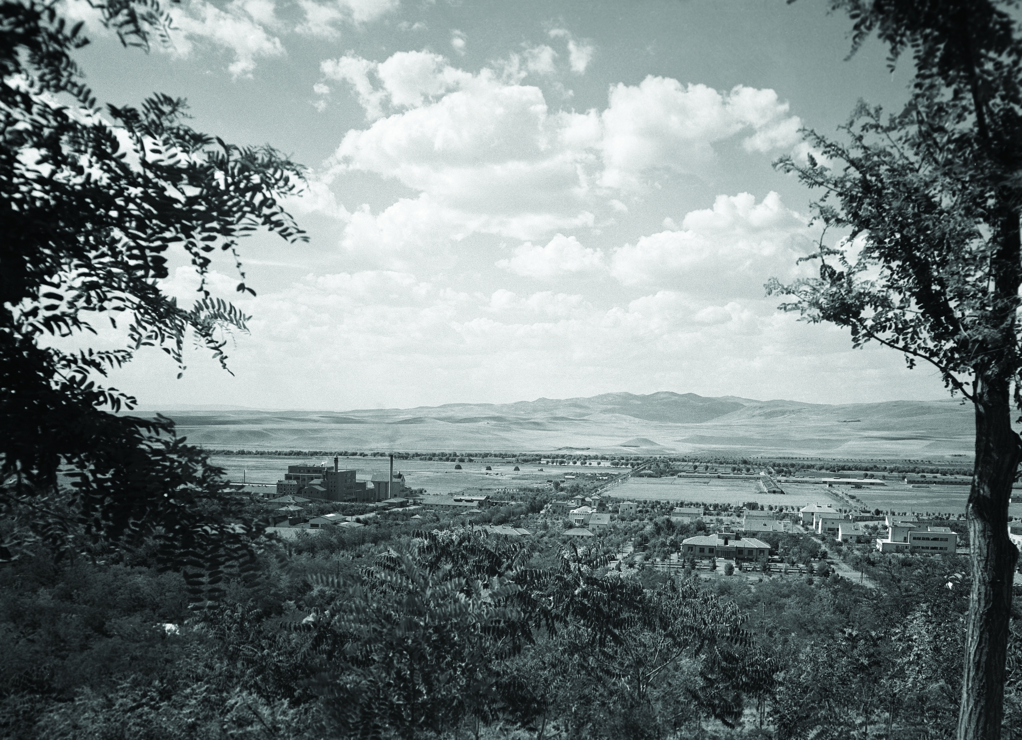 During the start of spring in 1925, Atatürk mentioned his desire about building a farm in Ankara to a group of agriculturalists. He requested them to find a suitable place for the farm. The entire plane was arid; there was almost no suitable site for the farm. Even the most suitable place among the proposals was a wetland. They assessed the site and Atatürk decided that the farm would be built on this arid, wetland area. Over the years, they created a modern agricultural and industrial institution on this land as a part of the pursued agricultural policy. Initially, the farm was named Gazi (Ghazi) Forest Farm. Its name was changed to the Atatürk Forest Farm after the Surname Law was enacted. When the farm was donated to The Treasury, it spanned an area of 102.000 hectares. Atatürk Orman Çiftliği, 1939 1925 yılının bahar ayına girildiğinde bir gün Atatürk ziraatçı kişilerden oluşan bir gruba, Ankara’da çiftlik kurma arzusunu dile getirdi. Onlardan istediği, kendisine yer göstermeleriydi. Çeşitli görüşler ortaya atıldı. Arazi hep çorak, çiftlik için uygun yer yok gibiydi. Gösterilen yerler içerisinde en uygun gibi görüneni bile bataklıktı. Oraya gidip bakıldı. Atatürk, o çorak ve bataklık bölgeye çiftliğini kurmaya karar verdi. Orada, yıllar içerisinde, ülkede izlenen tarım politikasının bir parçası olarak modern bir tarım ve endüstri kurumu yaratıldı. Bunu komşu araziler izledi. Çiftlik alanı genişletildi. Bütün harcamaları Atatürk yapıyordu. Adı, Gazi Orman Çiftliği oldu. Soyadı Kanunu çıktıktan sonra da Atatürk Orman Çiftliği. Hazine’ye bağışlandığında 102.000 dönüm büyüklüğündeydi. İlk dönemde (1926), sebze ve meyve yetiştirildi. Şeker pancarı üretimine geçildi. Koyunculuk, inekçilik, atçılık, tavukçuluk, sütçülük, peynircilik, yoğurtçuluk, fidanlık, bağcılık, şarapçılık, arıcılık Çiftlik’teki yıllar içerisinde oluşan çeşitli uğraş alanlarıydı. Aynı zamanda tarım makineleri onarılıyor, teknik eleman yetiştiriliyor, makinelerin kullanımı öğretiliyordu.